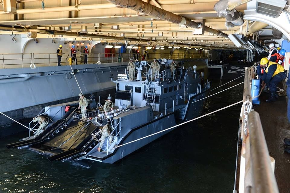 A mark VI patrol boat docks with the USS bataan's well deck